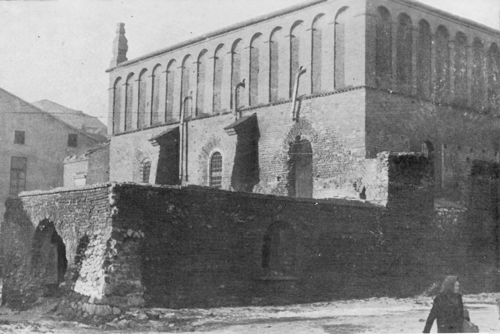 Old Synagogue of Kazimierz district of Kraków during WWII.